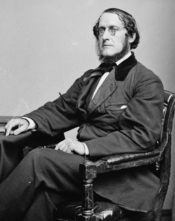 Hon. James Brooks.